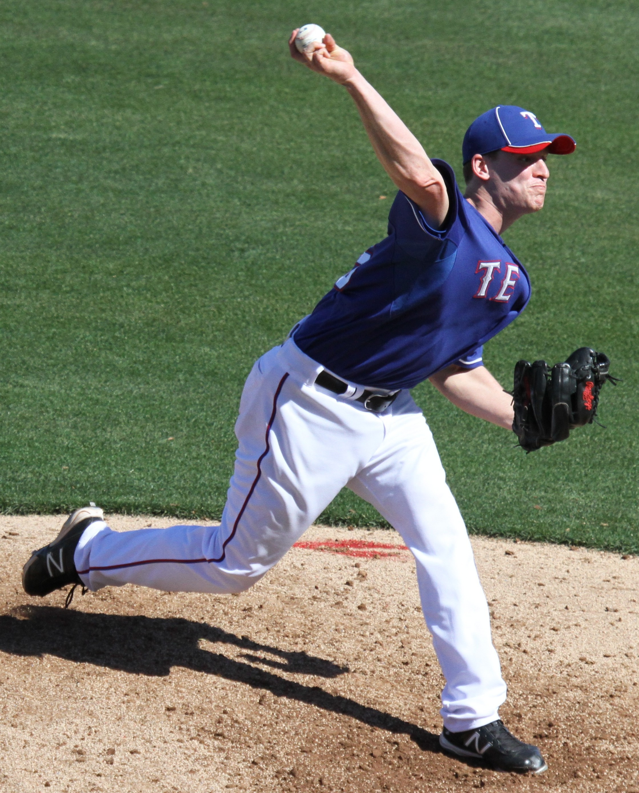 Neil Ramirez